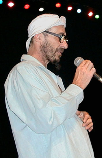 Jackie Orszaczky - famous Hungarian rock-jazz legend - in the PatakyCentral Budapest, Hungary, 12. 06. 2003. Nr. 01